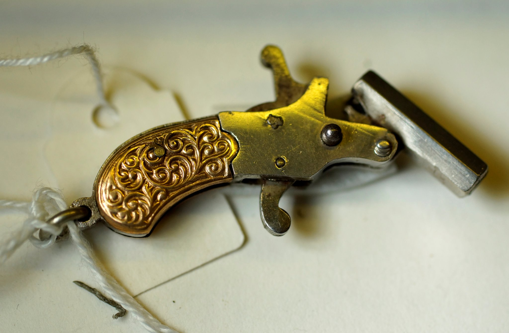 West Midlands Police Museum